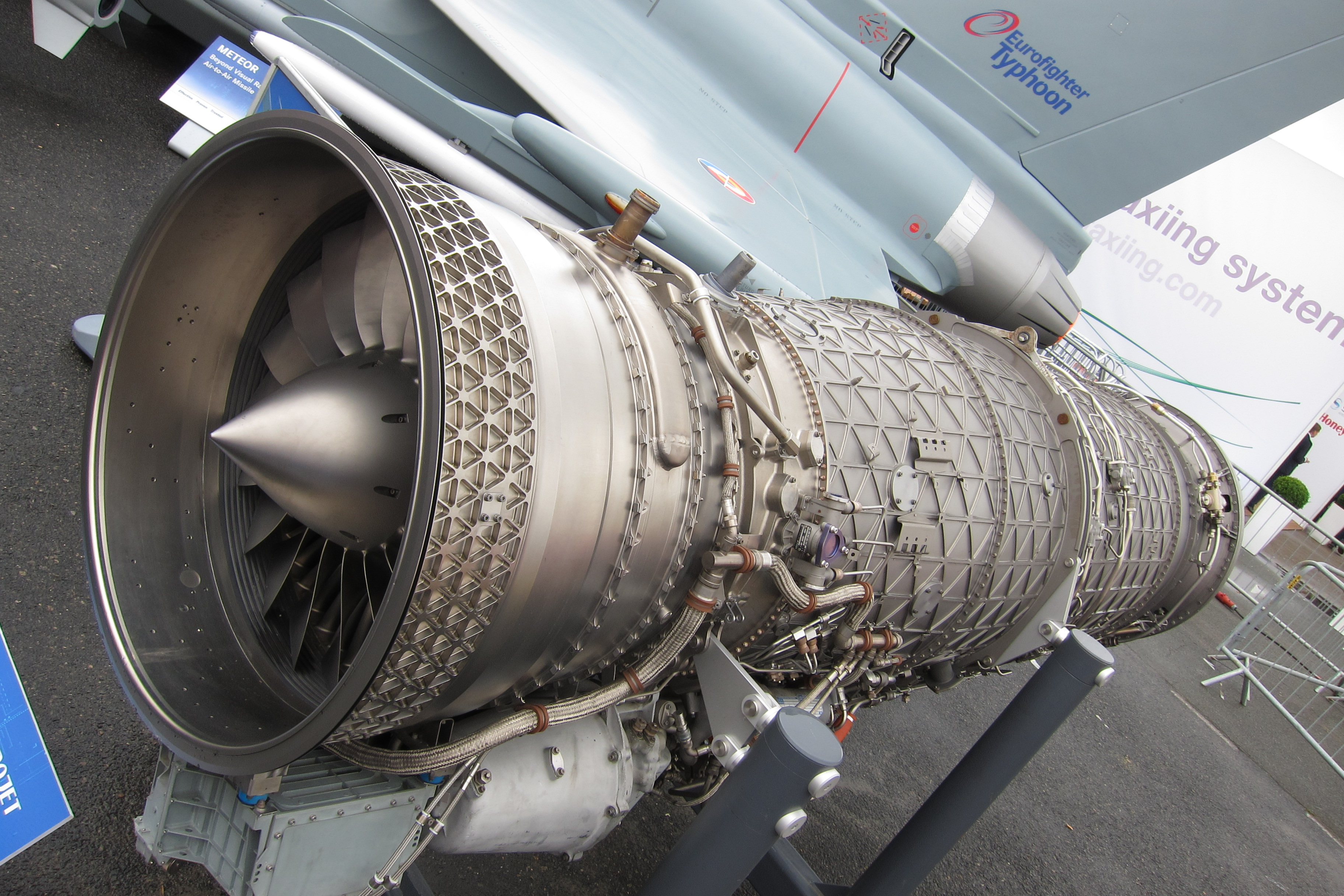 An Eurojet EJ200 turbofan on display at the Paris Air Show 2013